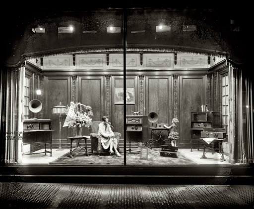 Display window at the Woodward & Lothrop flagship store in Washington, D.C. (Thos. R. Shipp Co. Atwater Kent window)